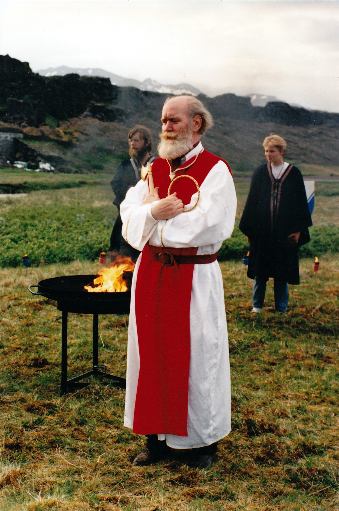 A photograph showing Jörmundur Ingi Hansen being sworn in as allsherjargoði ("common chieftain" or "high priest") at Þingvellir.